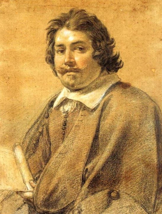 self-portrait in the Uffizi